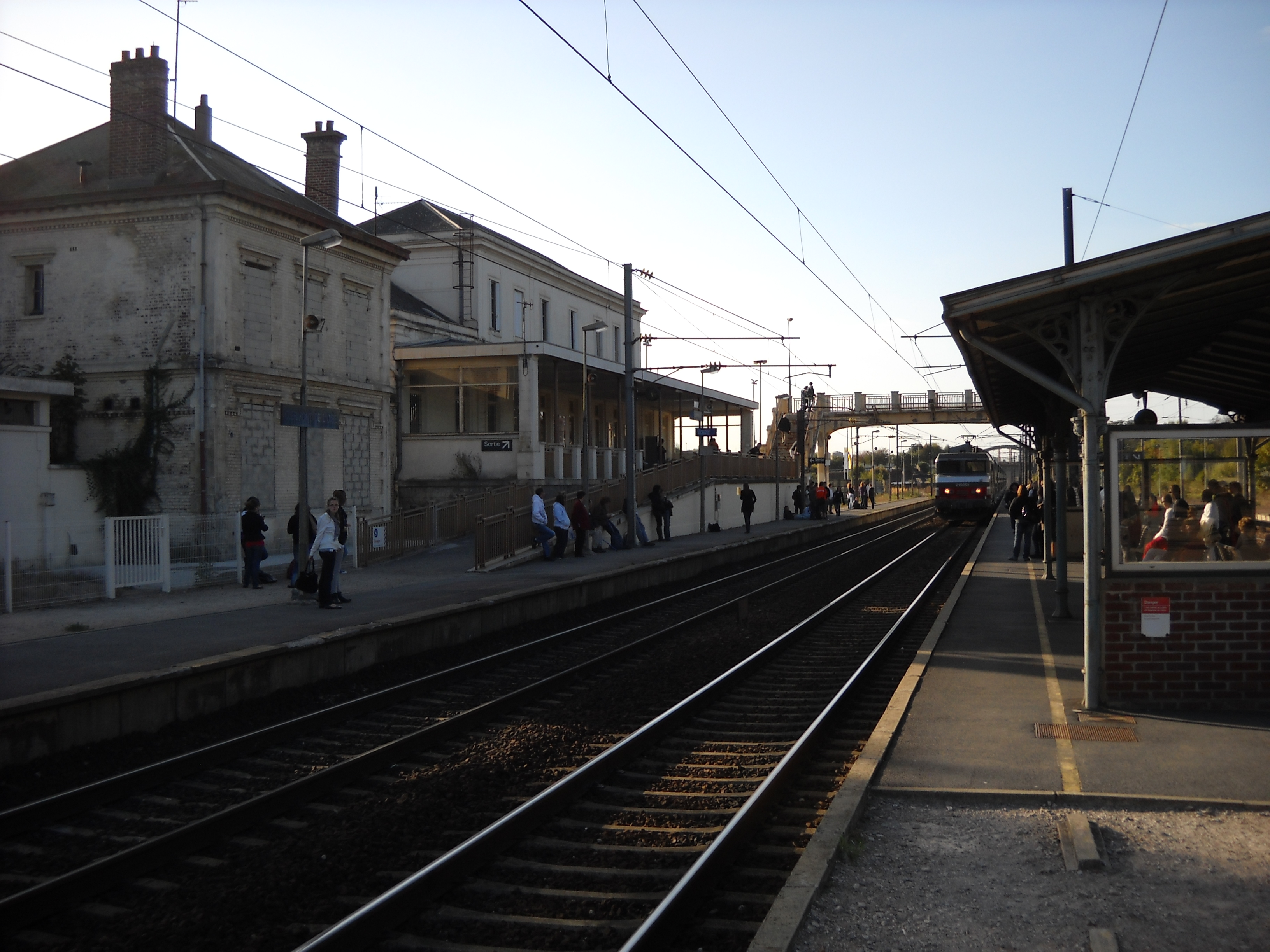 The train station of Clermont, Oise, France.